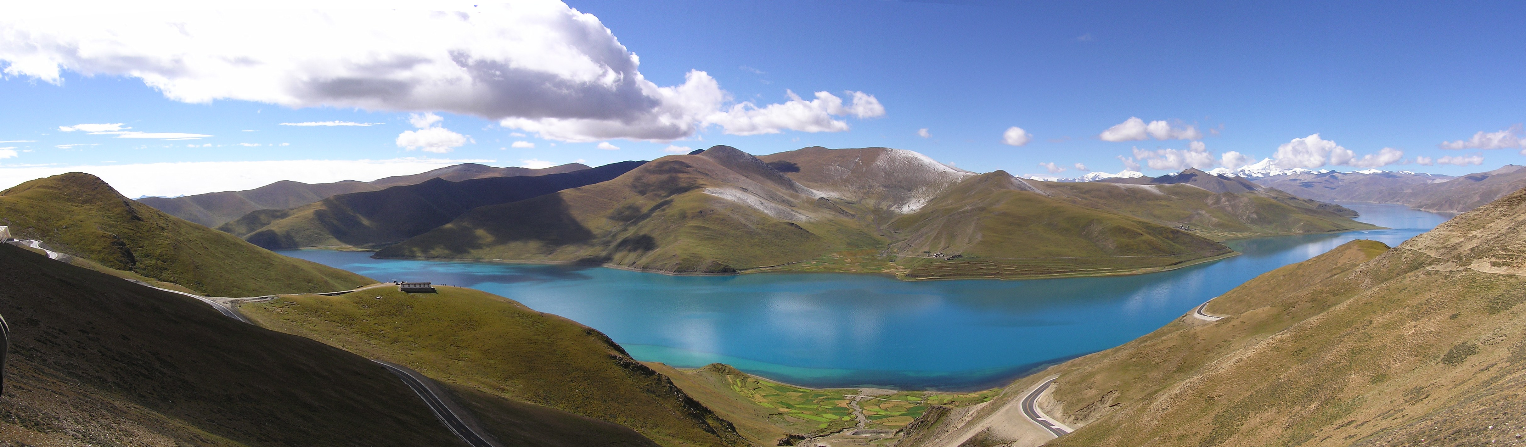 Yamdrok Lake (also called Yamdrok-Tso, Yamdrok Yumtso, and Yamzho Yumco) photographed from the Gamta La pass (at approx. 29°11′N 90°37′E / 29.183°N 90.617°E) in Tibet.